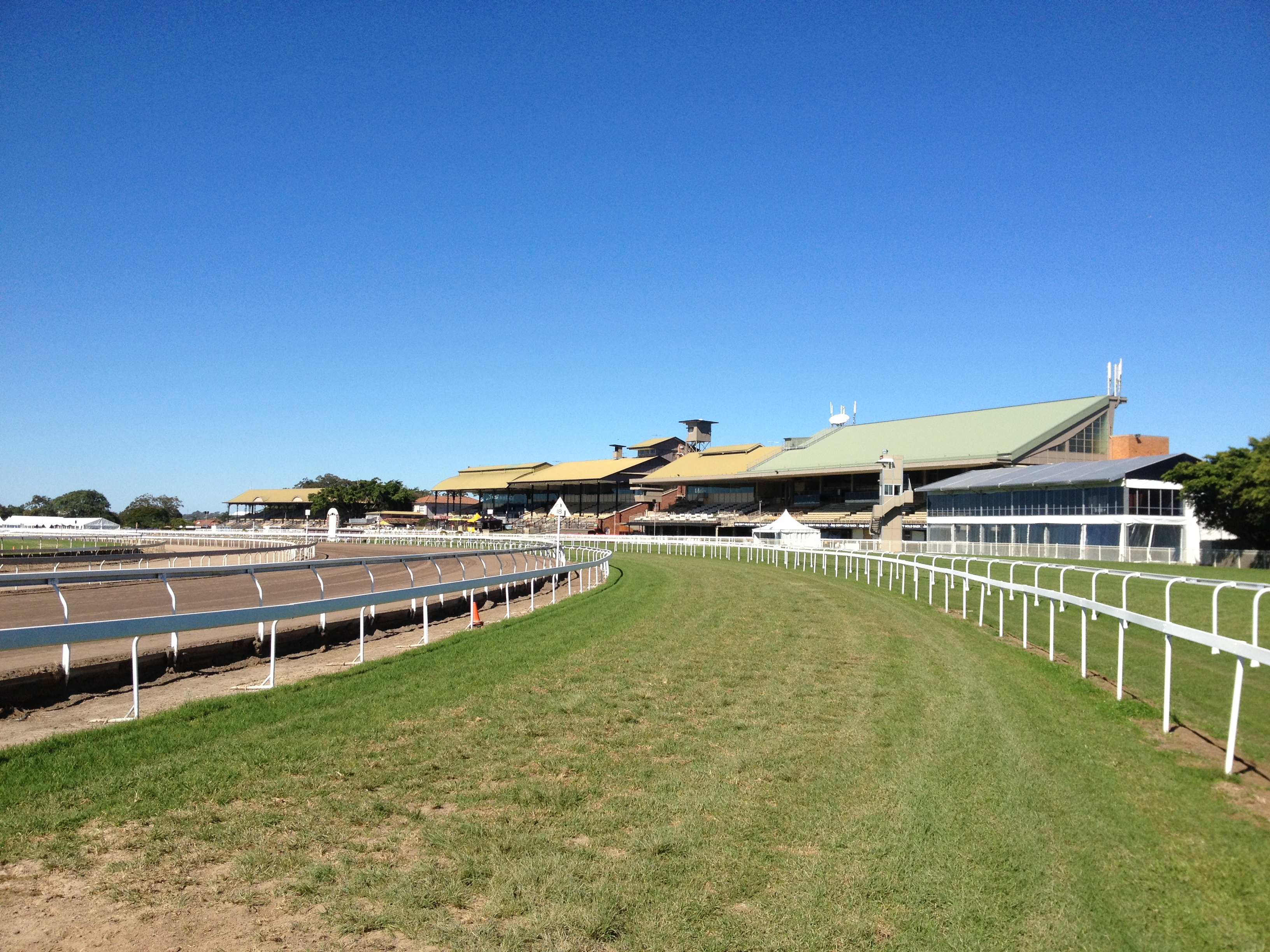 View of Racecource and stands, Eagle Farm Racecource, May 2013